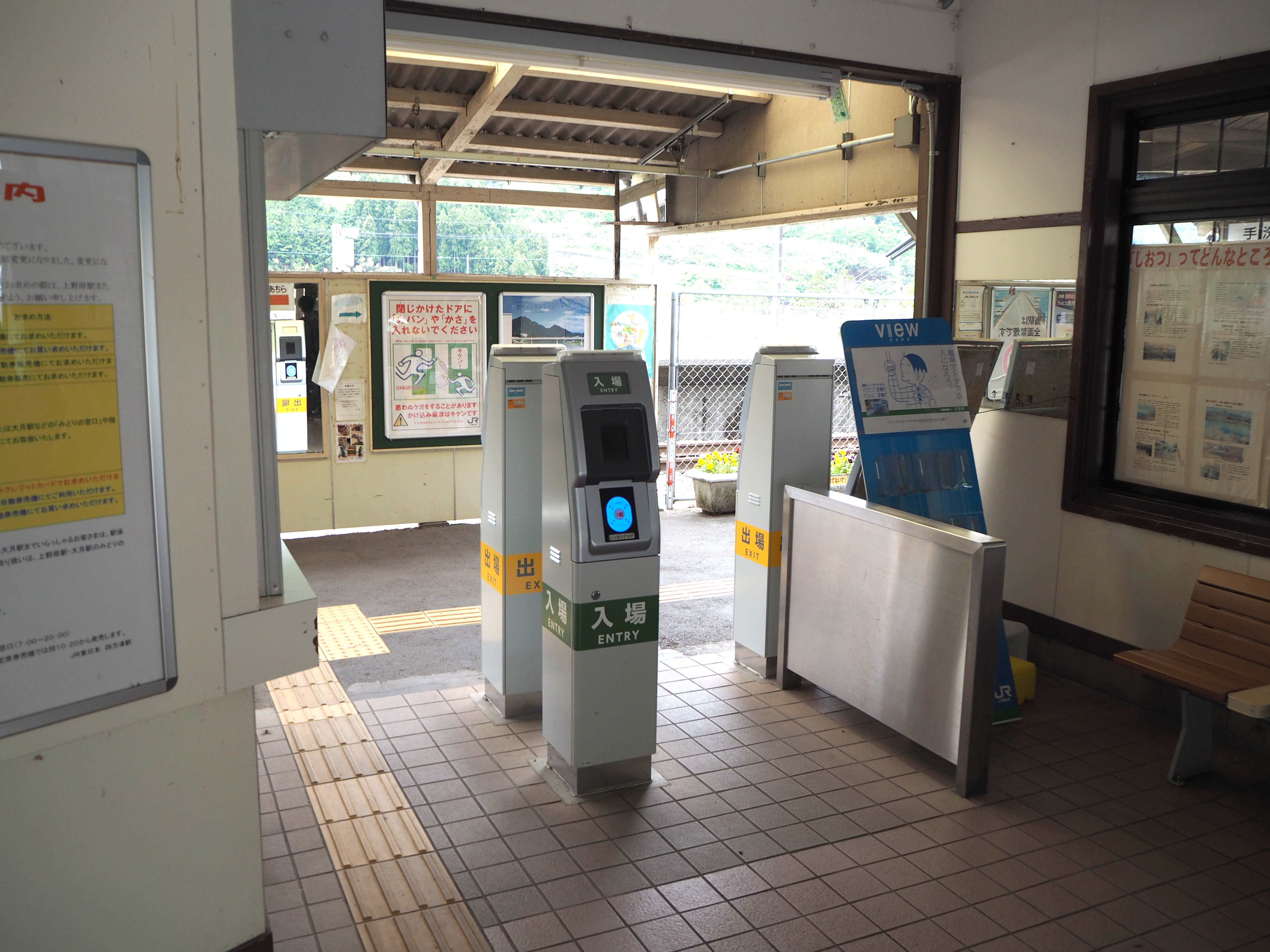 Ticket gate of Shiotsu Station